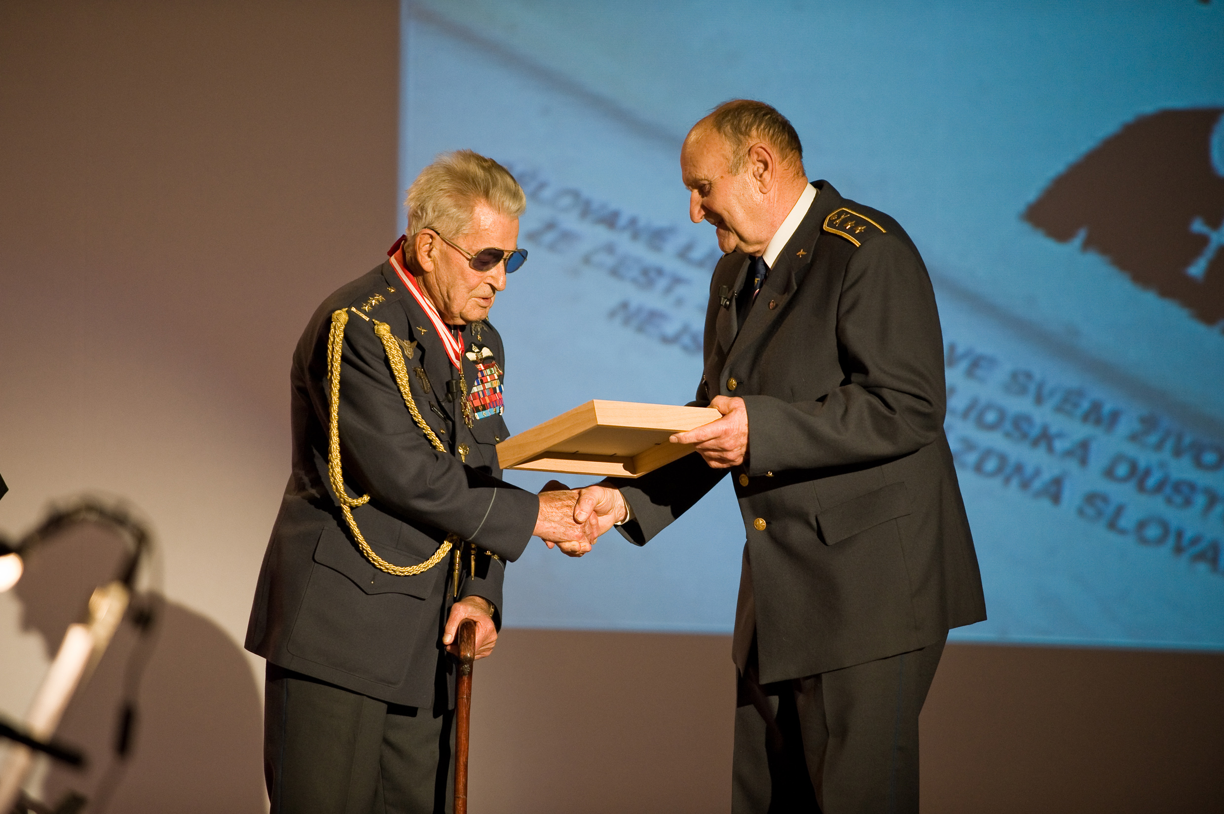 V roce 2011 si Cenu paměti národa přebral letec Imrich Gablech